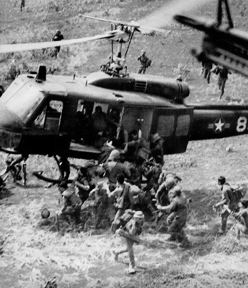 ARVN flee, Battle of An Loc 1972